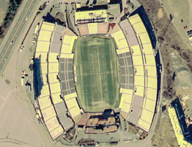 Cropped version of :File:Foxborostade crop.png%7Cthis